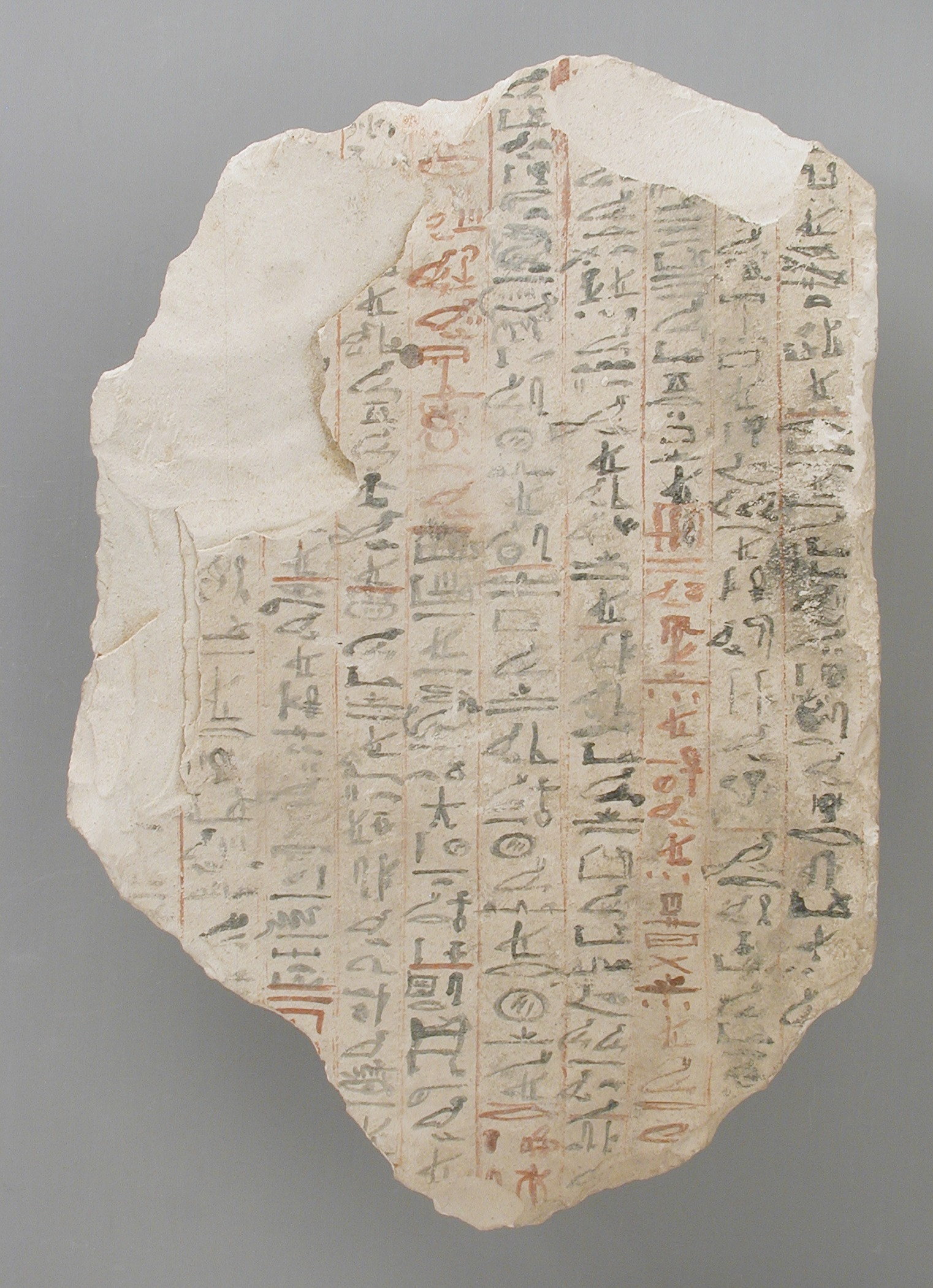 Egypt, New Kingdom, 19th and 20th Dynasty (1315 - 1081 BCE) Tools and Equipment; ostraka Limestone 7 x 4 3/4 in. (17.8 x 12.1 cm) Gift of Carl W. Thomas (M.80.203.204) Egyptian Art